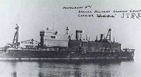 Port side view of Imperial Japanese Army landing ship Shinsyu Maru. The thicker funnel is a dummy.